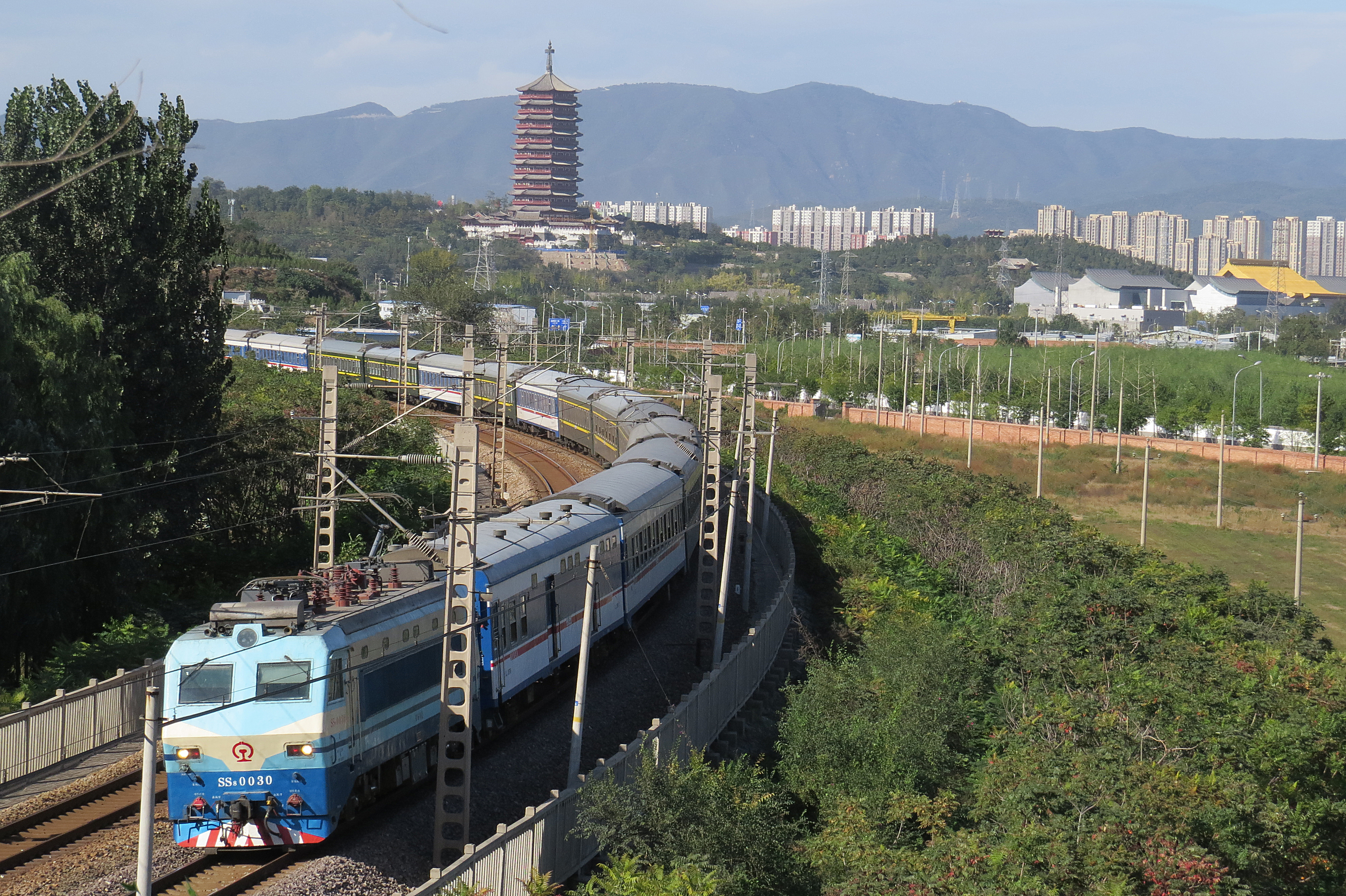 T167 to Nanchang. Note the Yongding Pagoda in Garden Expo Park.